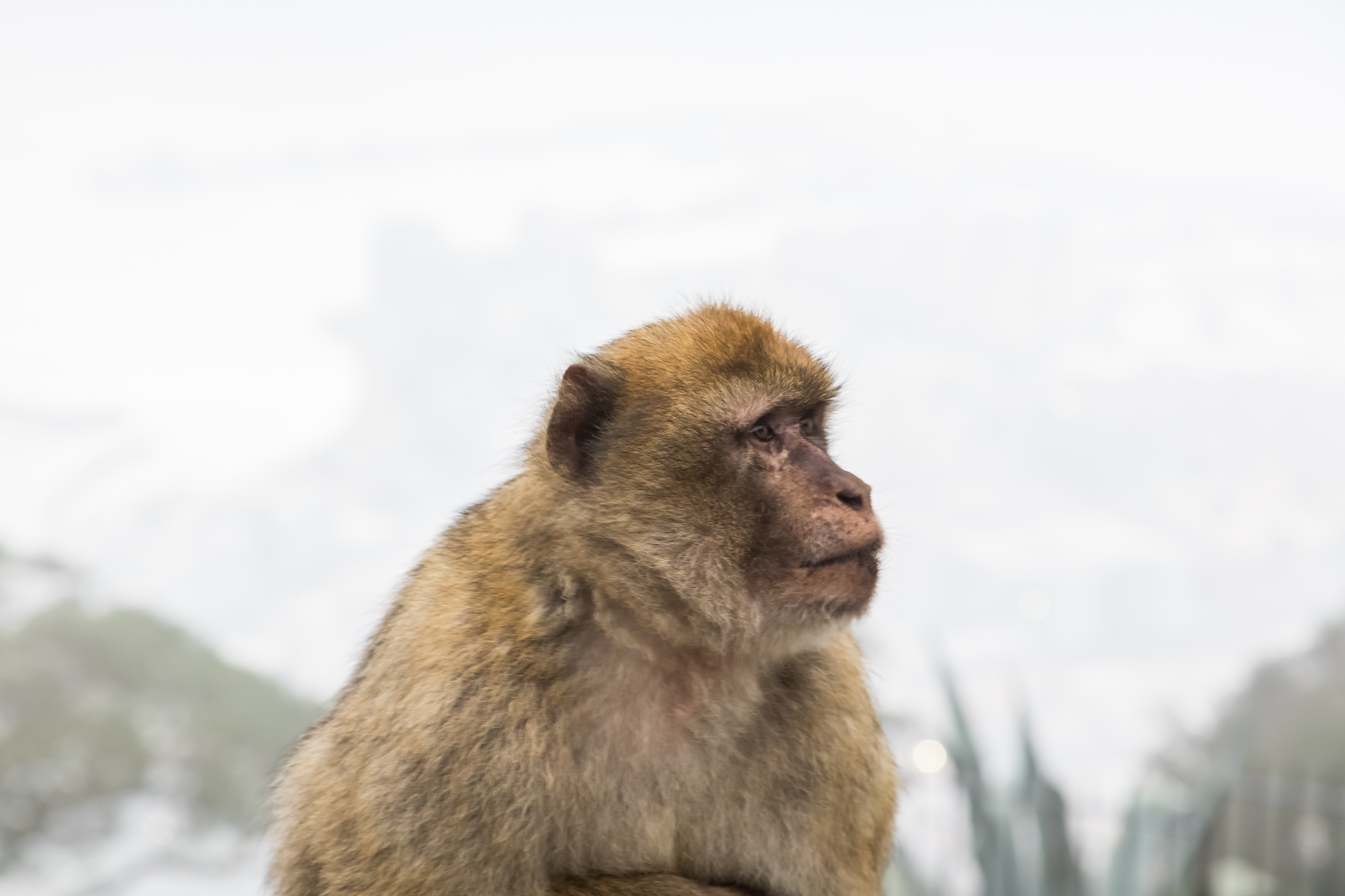 Gibraltar Barbary Macaque (Macaca sylvanus), Rock of Gibraltar